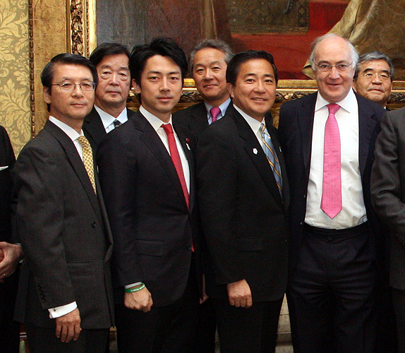 Members of the UK-Japan 21st Century Group met William Hague, Secretary of State for Foreign and Commonwealth Affairs, in the United Kingdom on May 2, 2013.